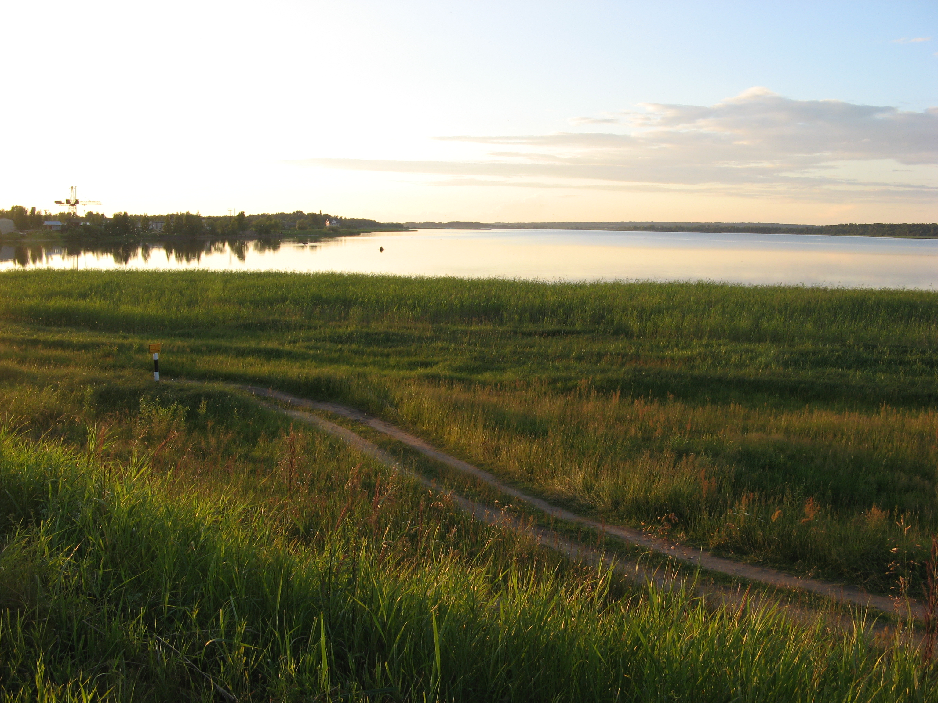 Valdai Hills